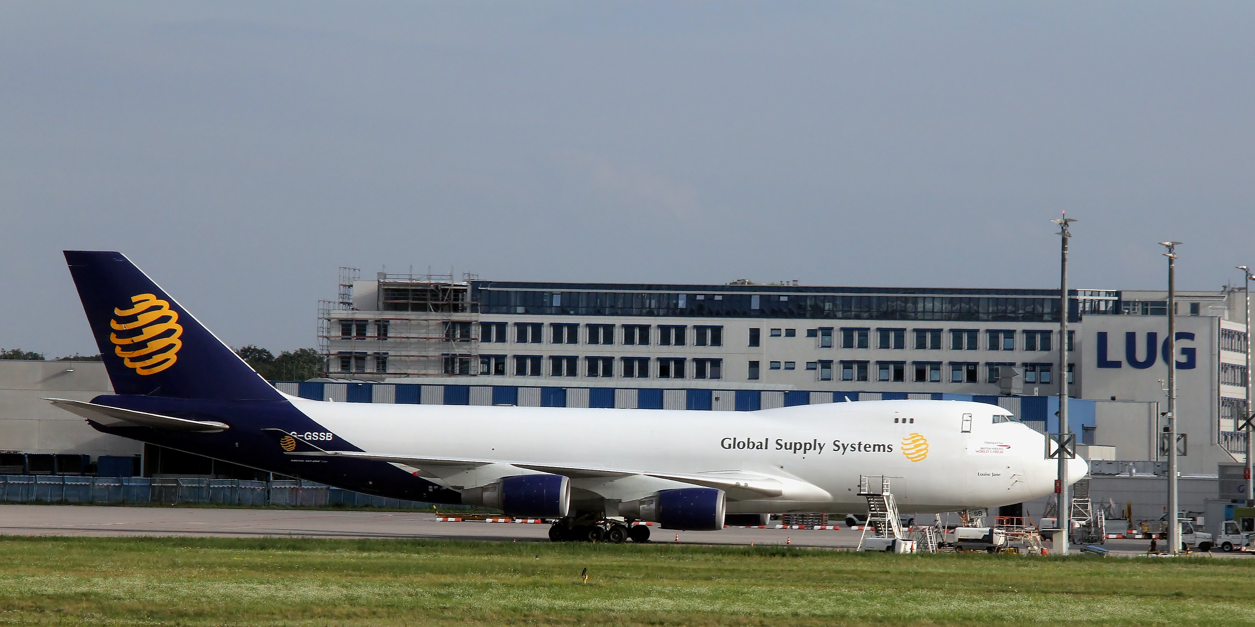 Global Supply Systems - Boeing 747-400F - Frankfurt am Main - Registration: G-GSSB. Label below the cockpit window: "Operated for British Airways World Cargo". Name of the aircraft: "Louise Jane"